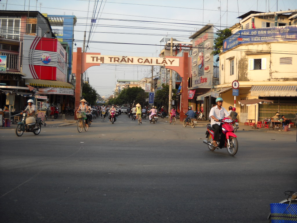 Cai Lay County-level Town, Tien Giang Province.